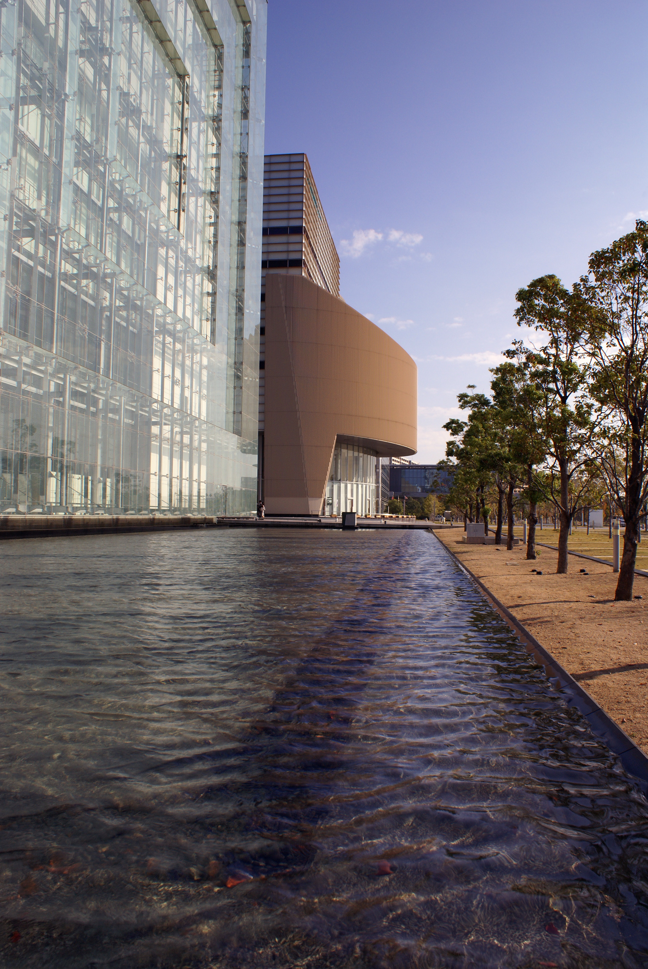 Disaster Reduction and Human Renovation Institution in HAT Kobe, Kobe, Hyogo, Japan